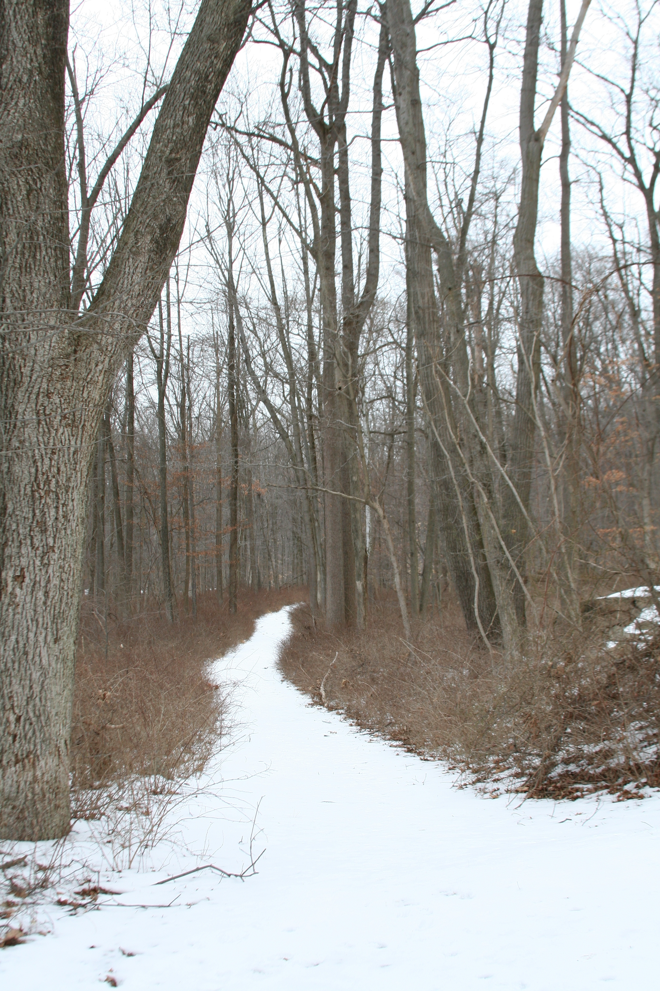 View of the bridle path that transects Doodletown, an abandoned town within Bear Mountain State Park, NY. Photo taken February 25, 2007 by Jim Harper (Pixel23).